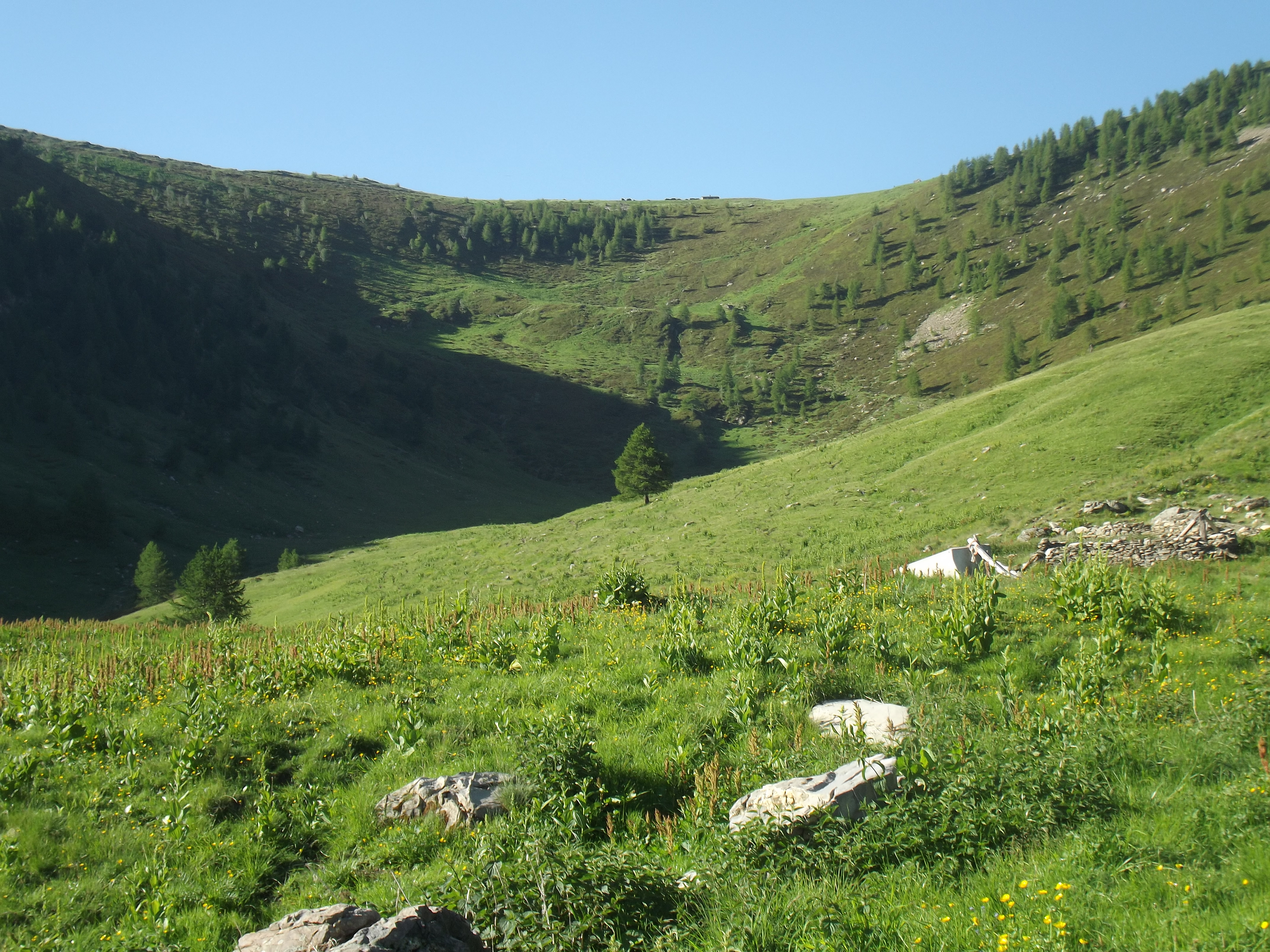 Passo Garlenda (Ligurian Alps, Italy, IM): Tanaro valley side